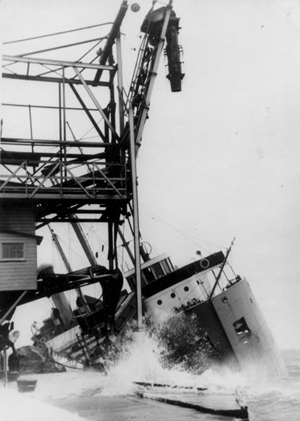 Efforts to salvage the Outarde in 1946. Original caption: “Initial salvage operations March 1946 Photograph by Geoffrey Hawthorne, courtesy of Daniel C. McCormick”